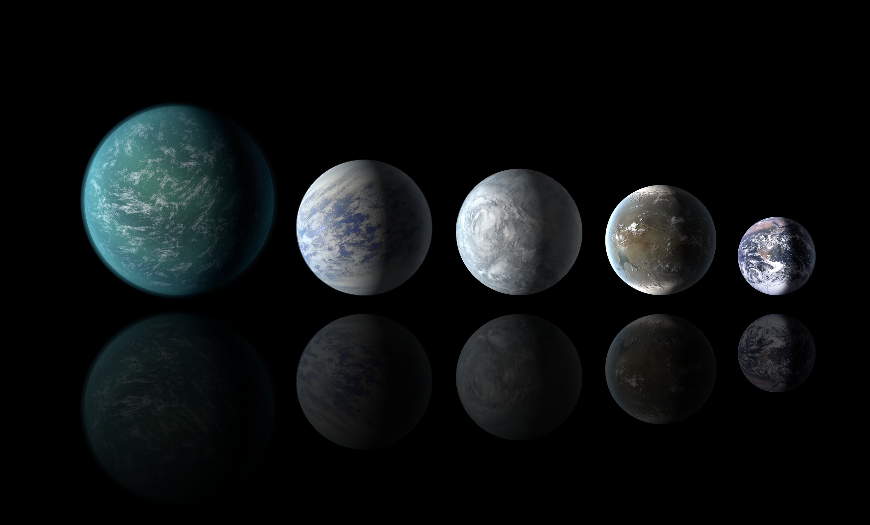 Relative sizes of all of the habitable-zone planets discovered to date alongside Earth. Left to right: Kepler-22b, Kepler-69c, Kepler-62e, Kepler-62f and Earth (except for Earth, these are artists' renditions).